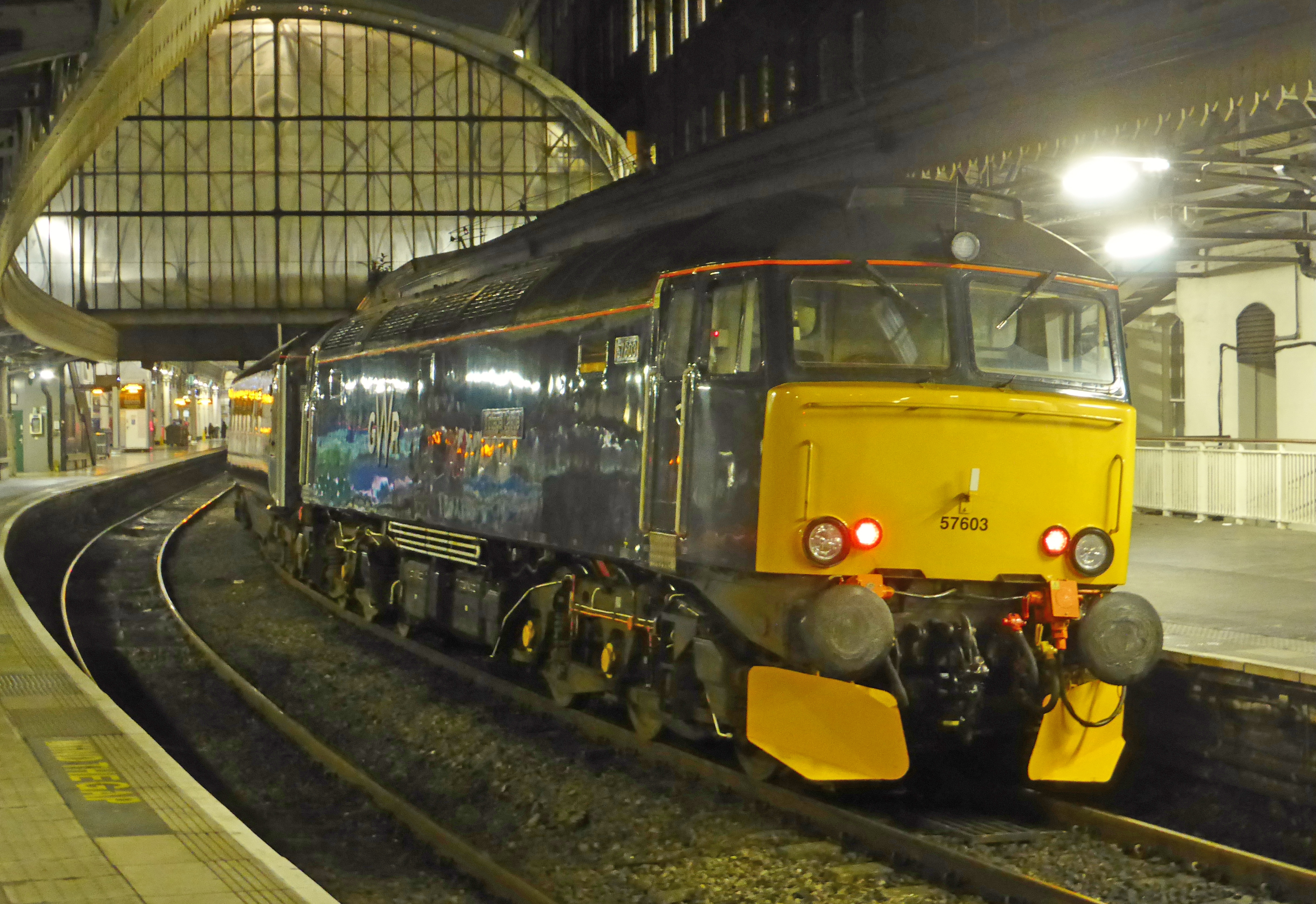 57603 Night Riviera Sleeper at London Paddington to Penzance 1C99